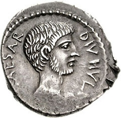 part of Image:Augustus_&_Agrippa3.jpg